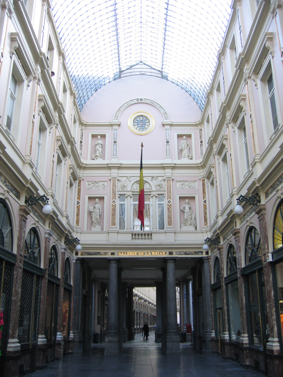 The royal galleries in Brussels